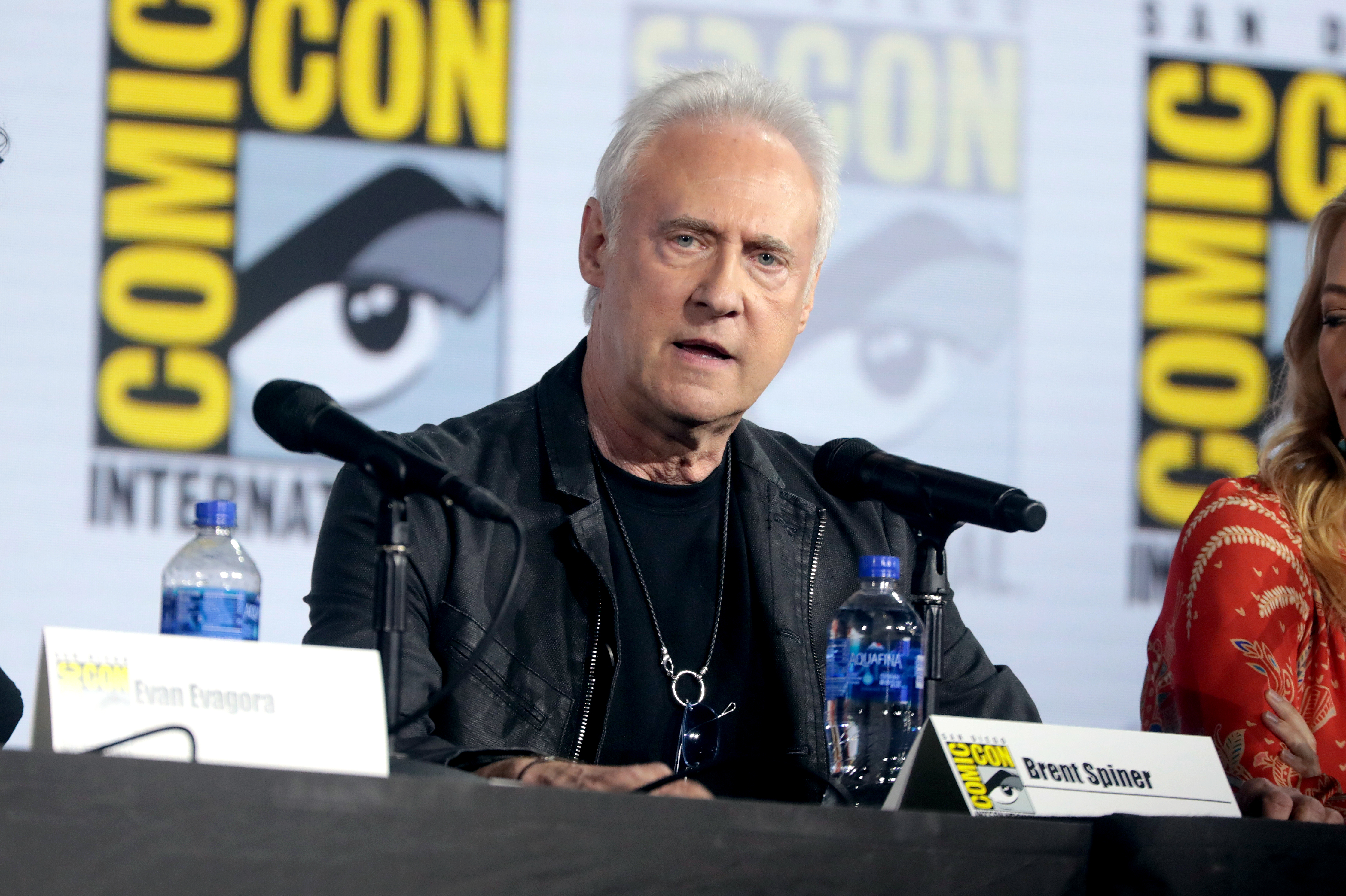 Brent Spiner speaking at the 2019 San Diego Comic Con International, for "Star Trek: Picard", at the San Diego Convention Center in San Diego, California.